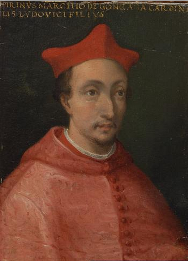 Portrait of Pirro Gonzaga (1505-1529)